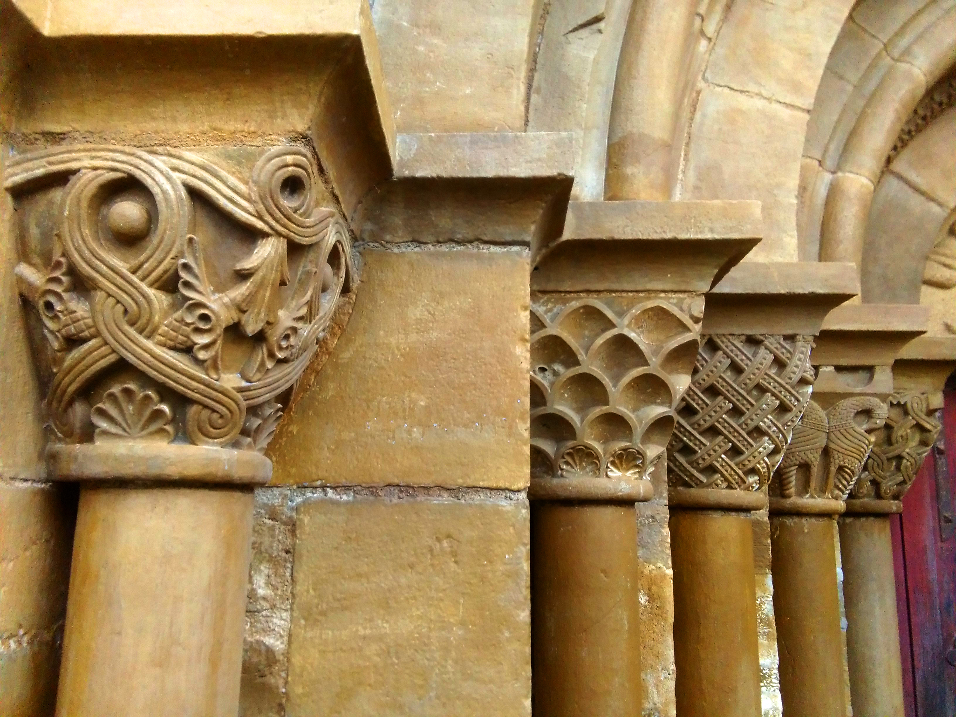 Capitals in the L'Hôpital-Saint-Blaise church (World Heritage Site)